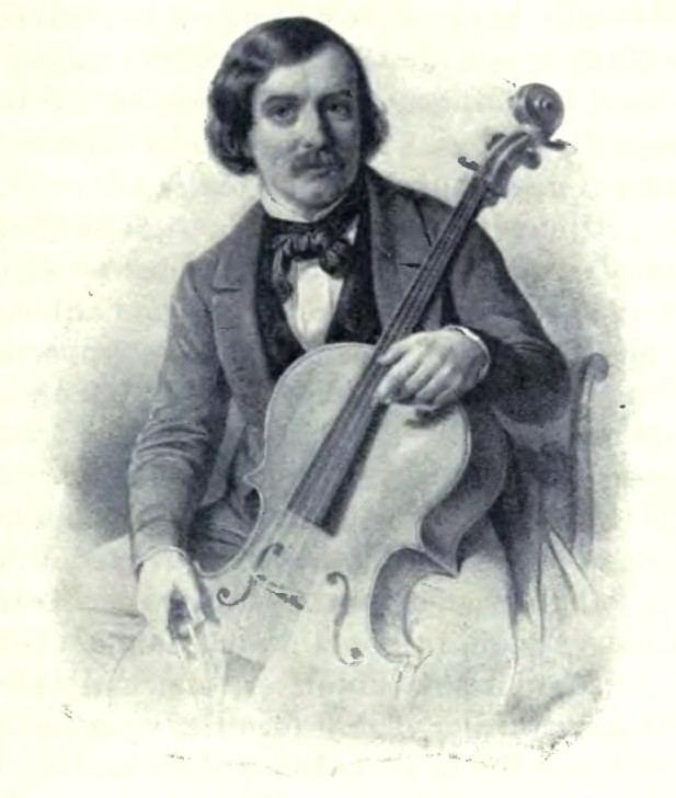 Danish cellist Christian Kellermann. After a lithograph by E. Bærentzen. Image from Nils Personne: Svenska Teatern VIII (1927).